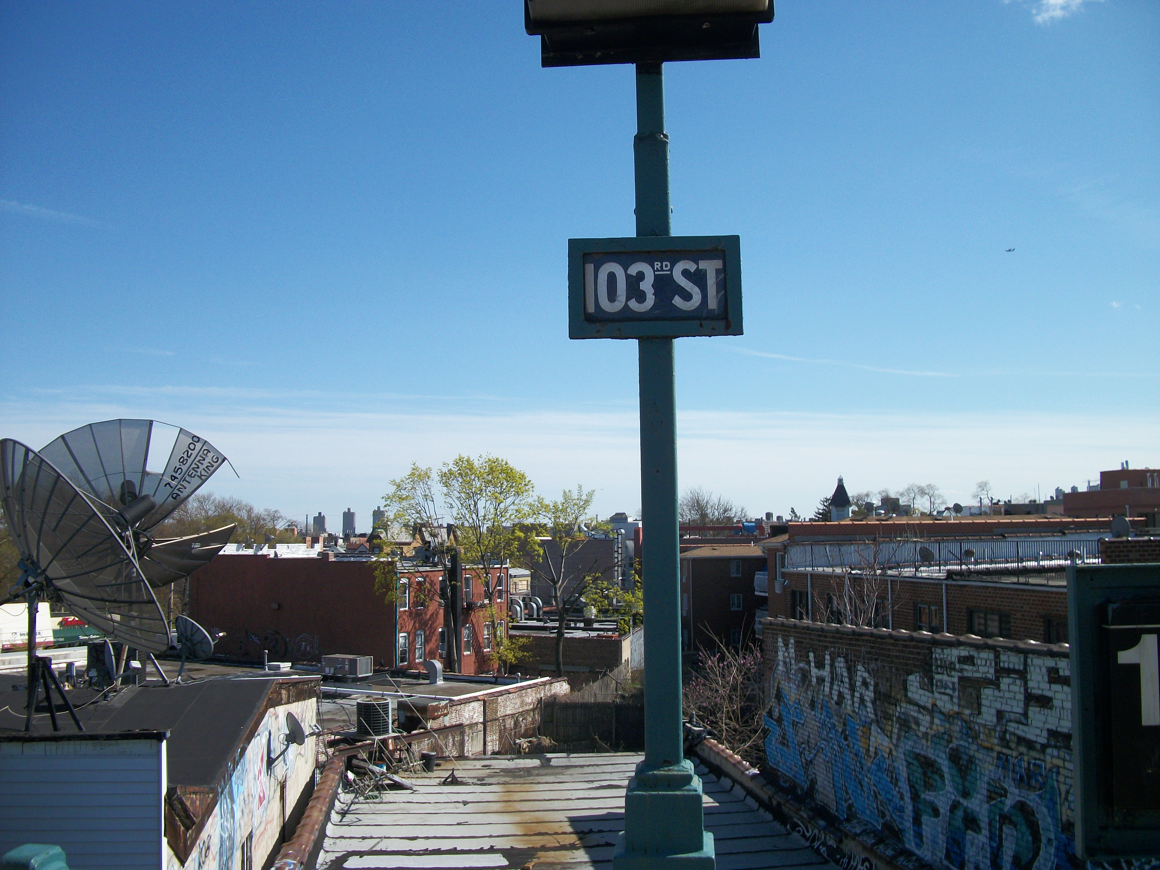 Evidence of the old-fashioned smaller signs at the 103rd Street – Corona Plaza (IRT Flushing Line) station in Corona, Queens, New York City.